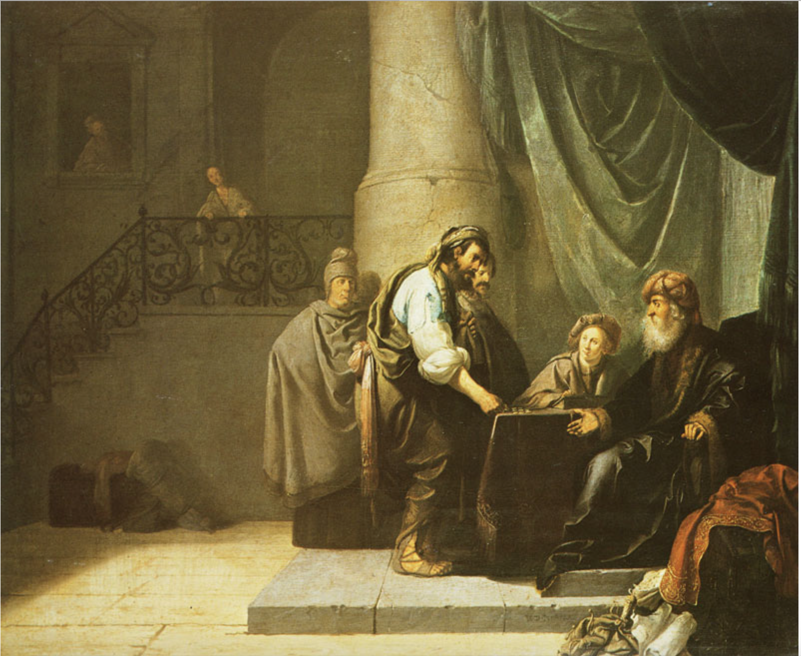 Painting by Willem de Poorter entitled The Parable of The Talents or Minas. 45 x 55 cm Oil on panel Narodni Galerie, Prague